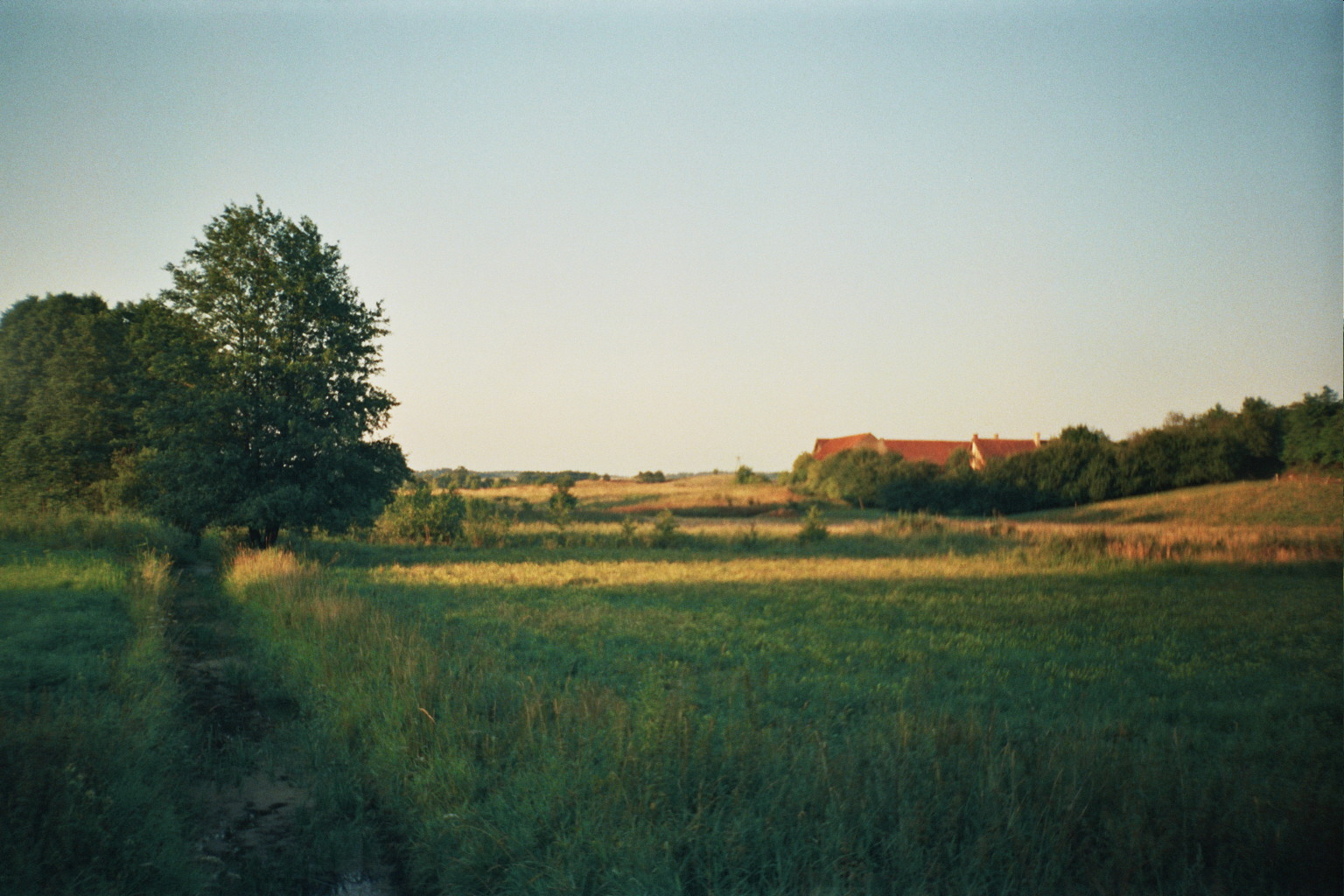 Witowo